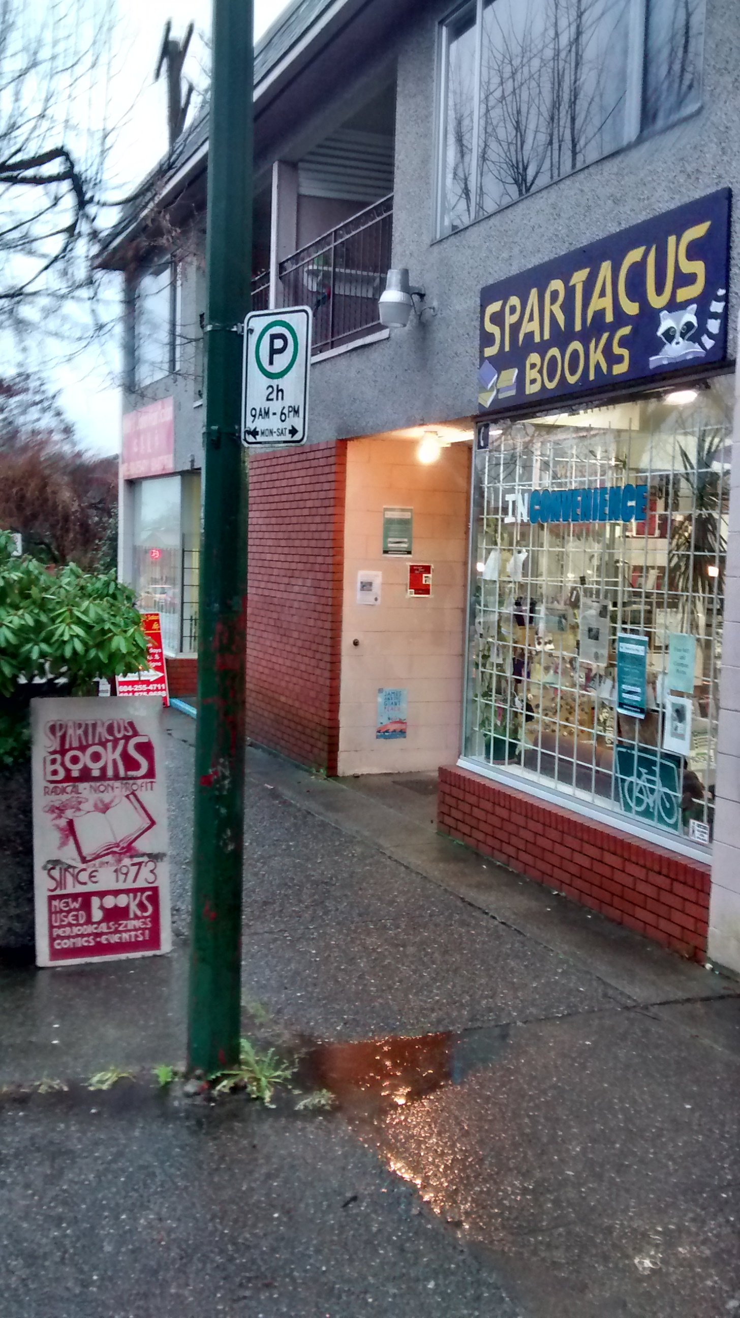 The exterior of Spartacus Books at its location on Findlay St. (to which it moved in 2014)